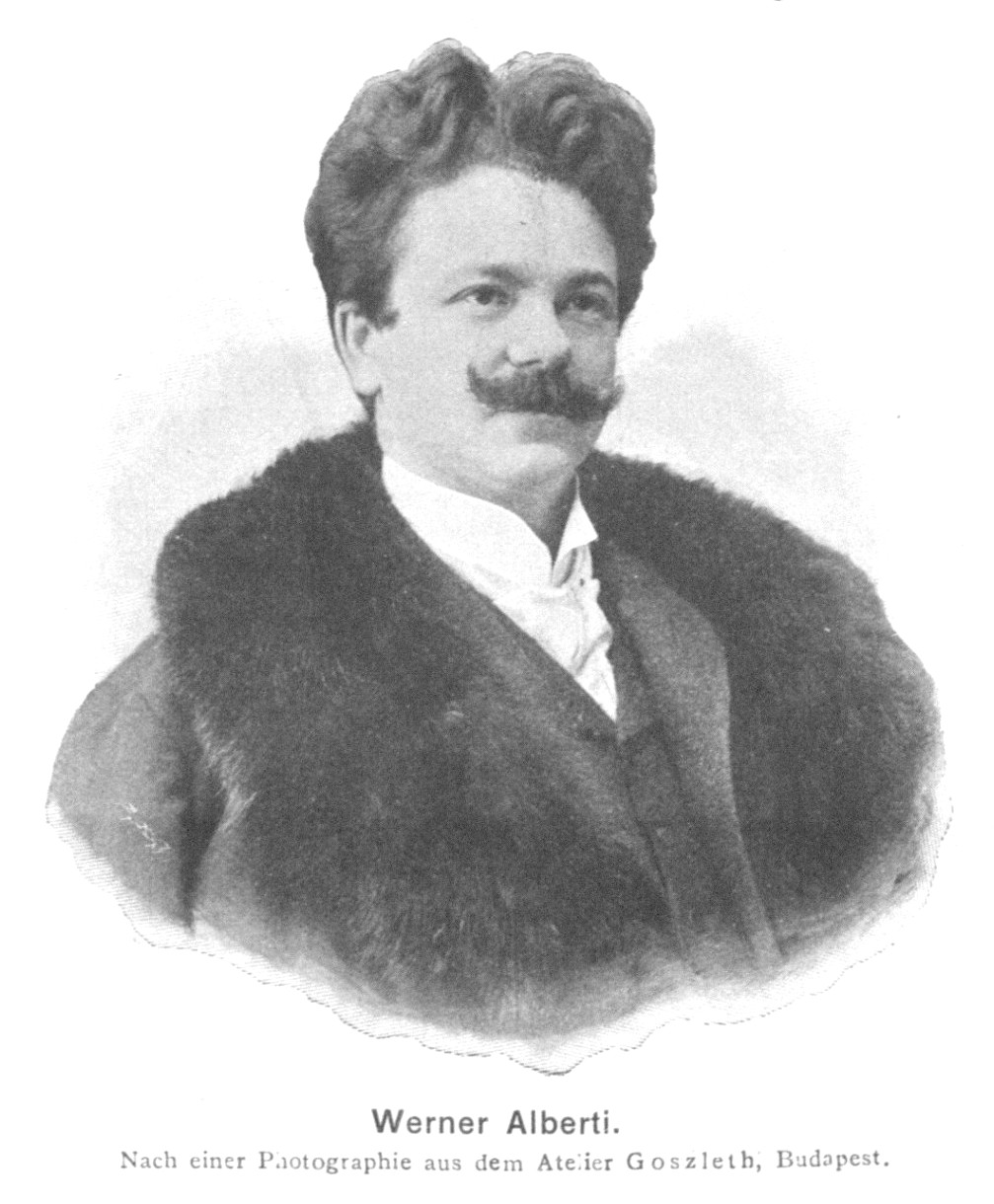 Portrait of Werner Alberti (1863-1934), German opera singer.